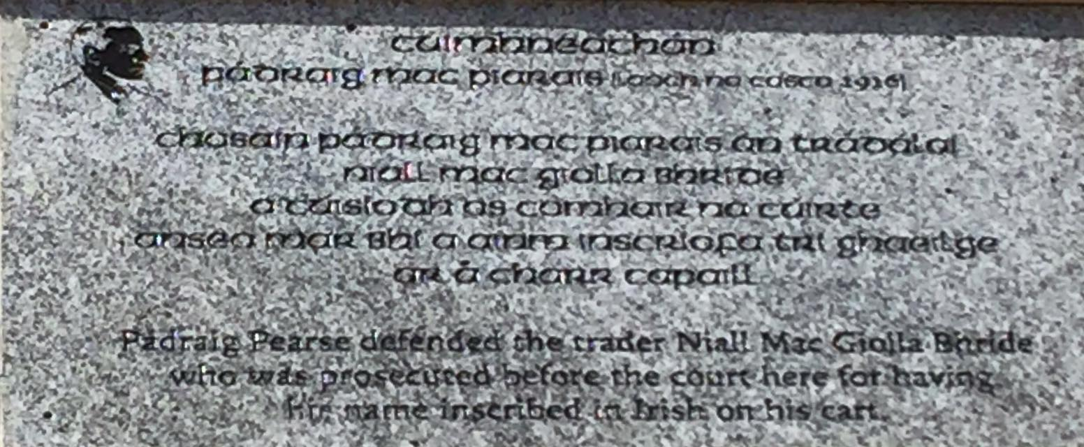 Plaque place and dedicated in April 2016